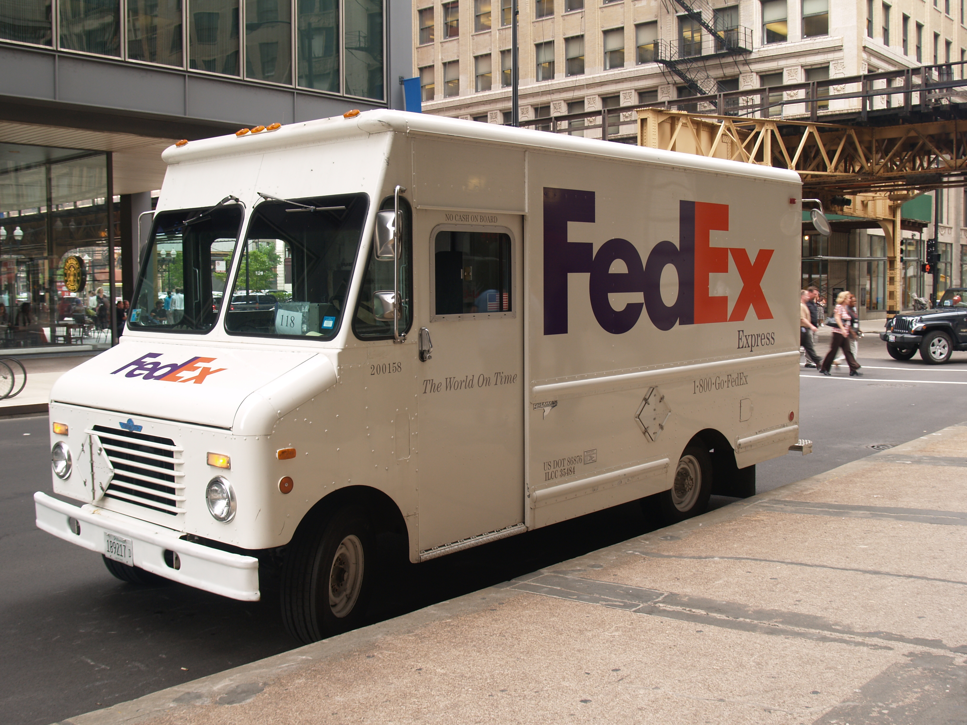 FedEx delivery truck on Jackson st, Chicago, IL